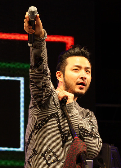 South Korean rapper Verbal Jint (버벌진트) performing in October 2014